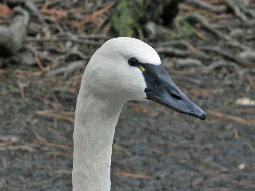 Whistling Swan (Cygnus columbianus columbianus) - Pine Grove Waterfowl Park, Virginia.